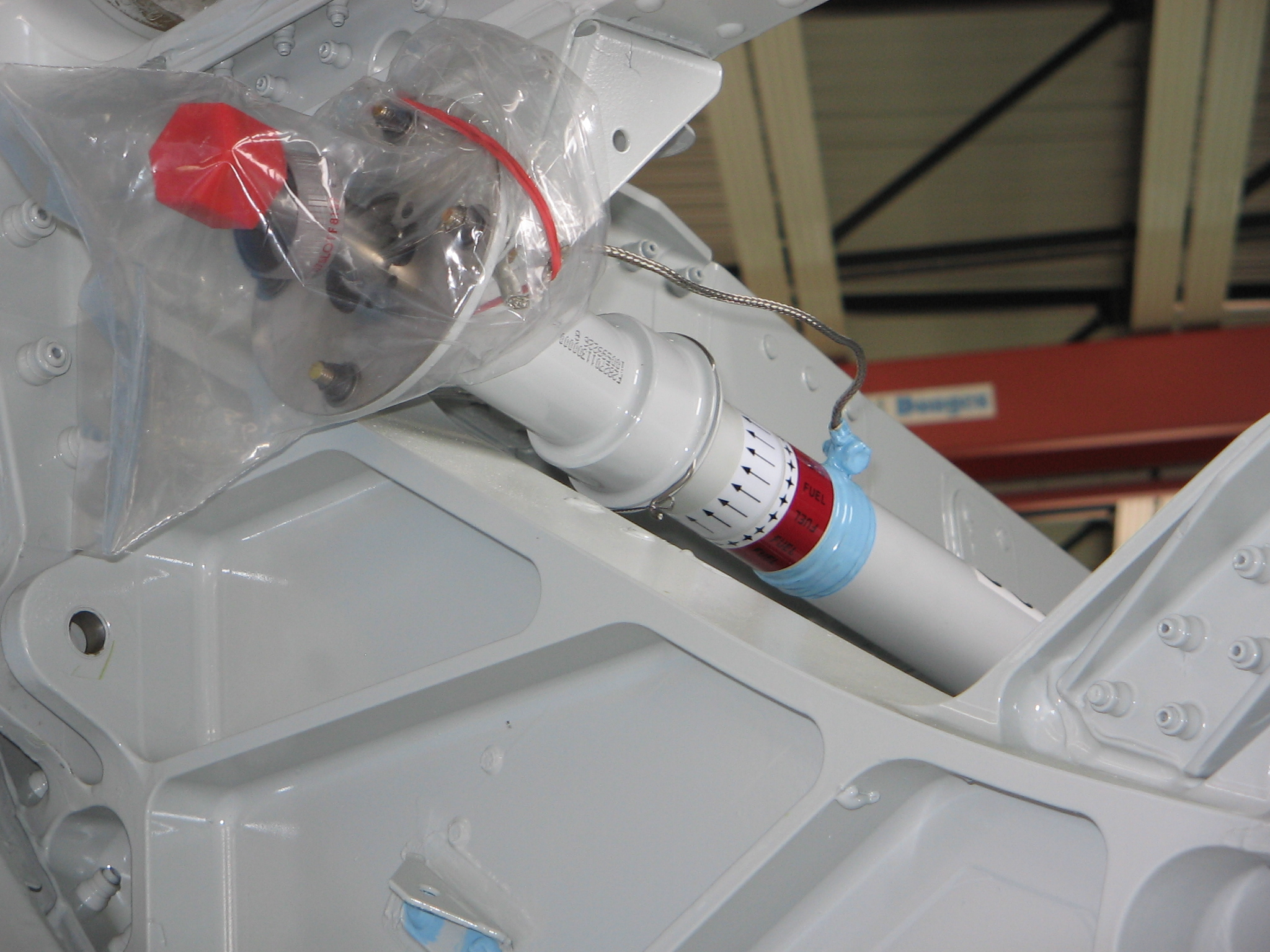 Fuel line of the rear conic part of the fuselage of an Airbus A340. This line sends fuel from the tanks in the wings to the Auxiliary power unit. Taken at Ingolstadt Manching Airport during an open day event. Uploaded to illustrate the Fuel line article.